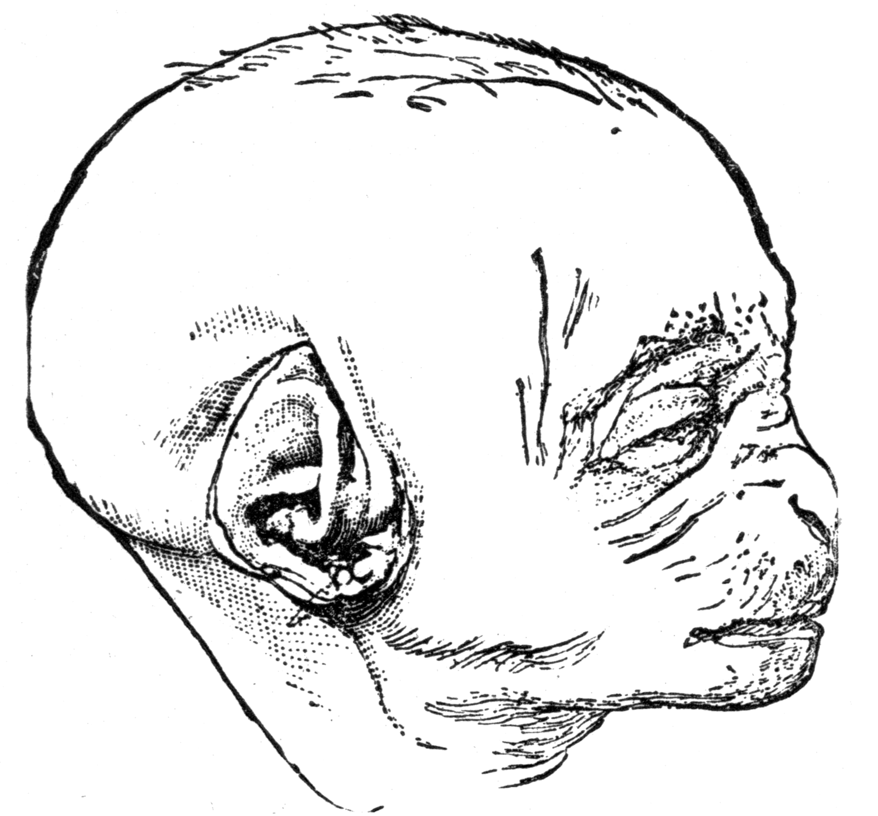 Figure 3 from "The Descent of Man" by Charles Darwin. Original caption "Fig 3. Foetus of an Orang. Exact copy of a photograph, showing the form of the ear at this early age."